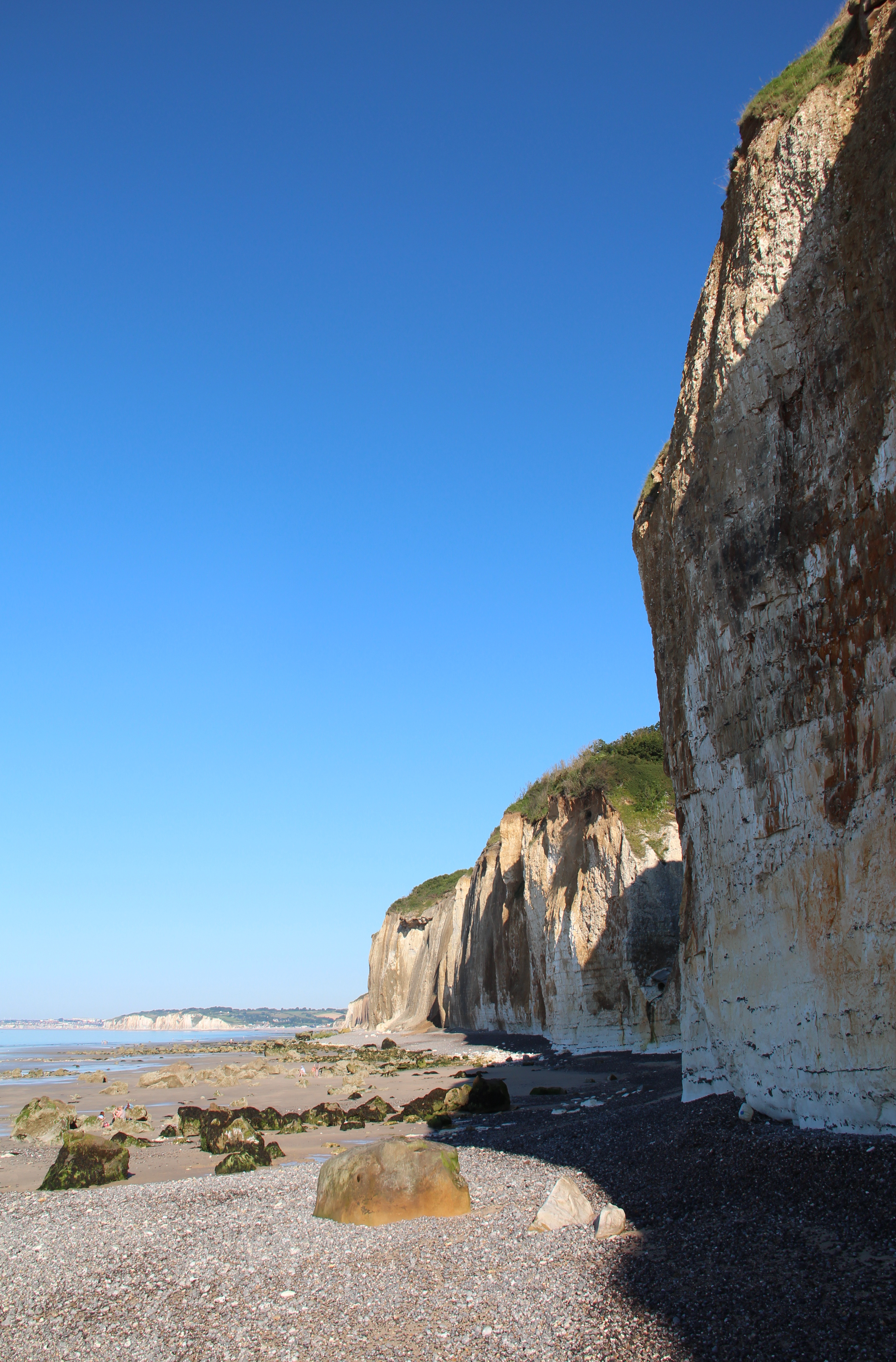 Varengeville-sur-Mer (Seine-Maritime - France), the beach and cliffs of Vasterival.